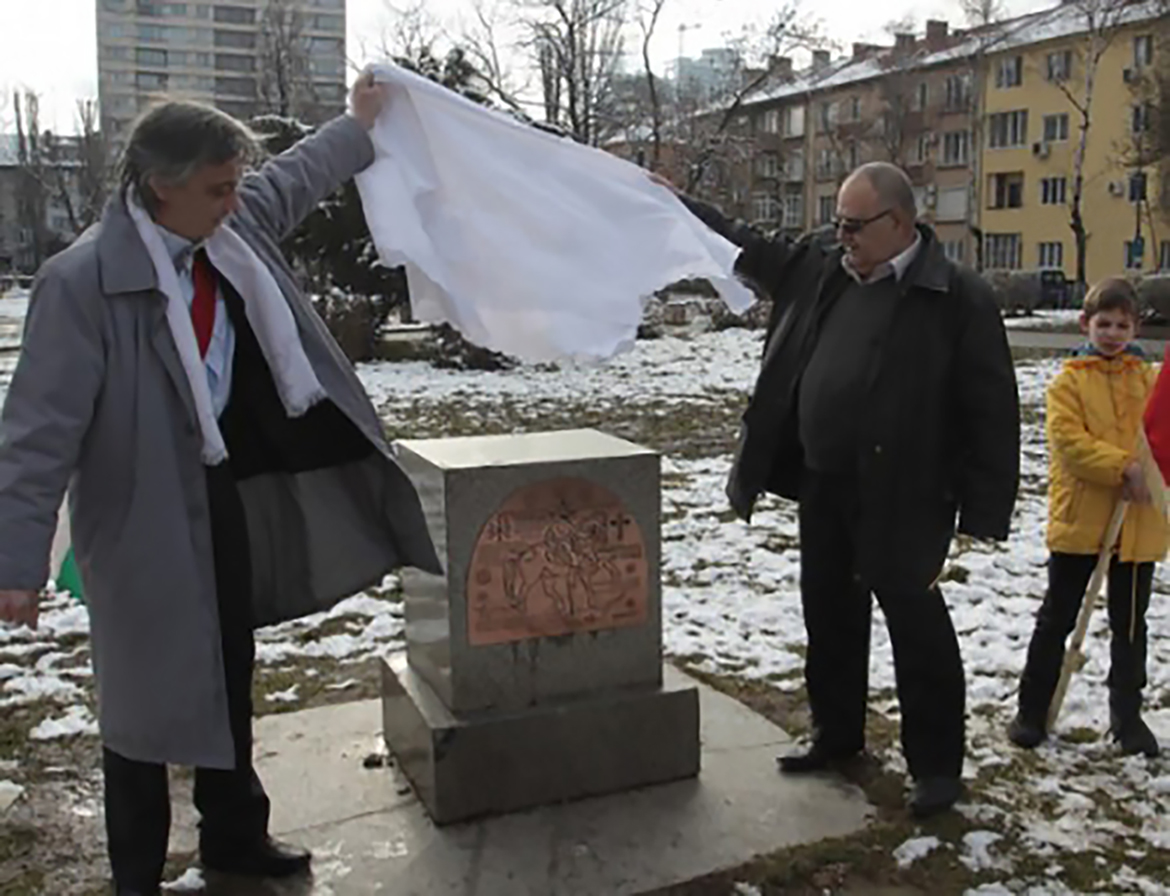 Milomir Bogdanov von und zu Ongal and Bojidar Dimitrov open the St. Khan Tervel icon sign in Sofia, 6-2-2016